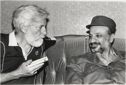 Uri Avnery (Hebrew: אורי אבנרי, also transliterated Uri Avneri, born 10 September 1923) is an Israeli writer and founder of the Gush Shalom peace movement.